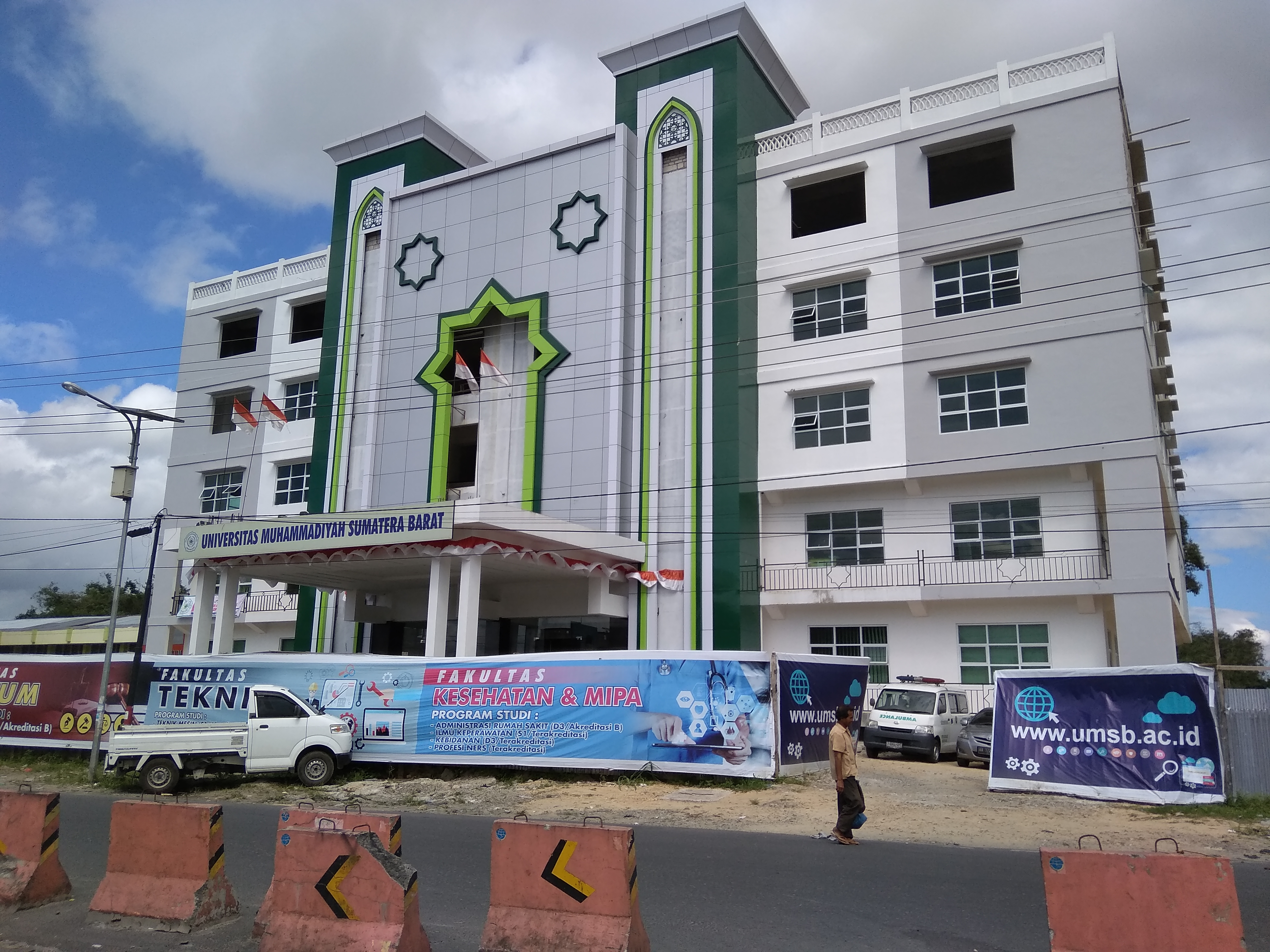 West Sumatra Muhammadiyah University Campus on By Pass street, Aur Kuning, Bukittinggi City, West Sumatra, Indonesia.